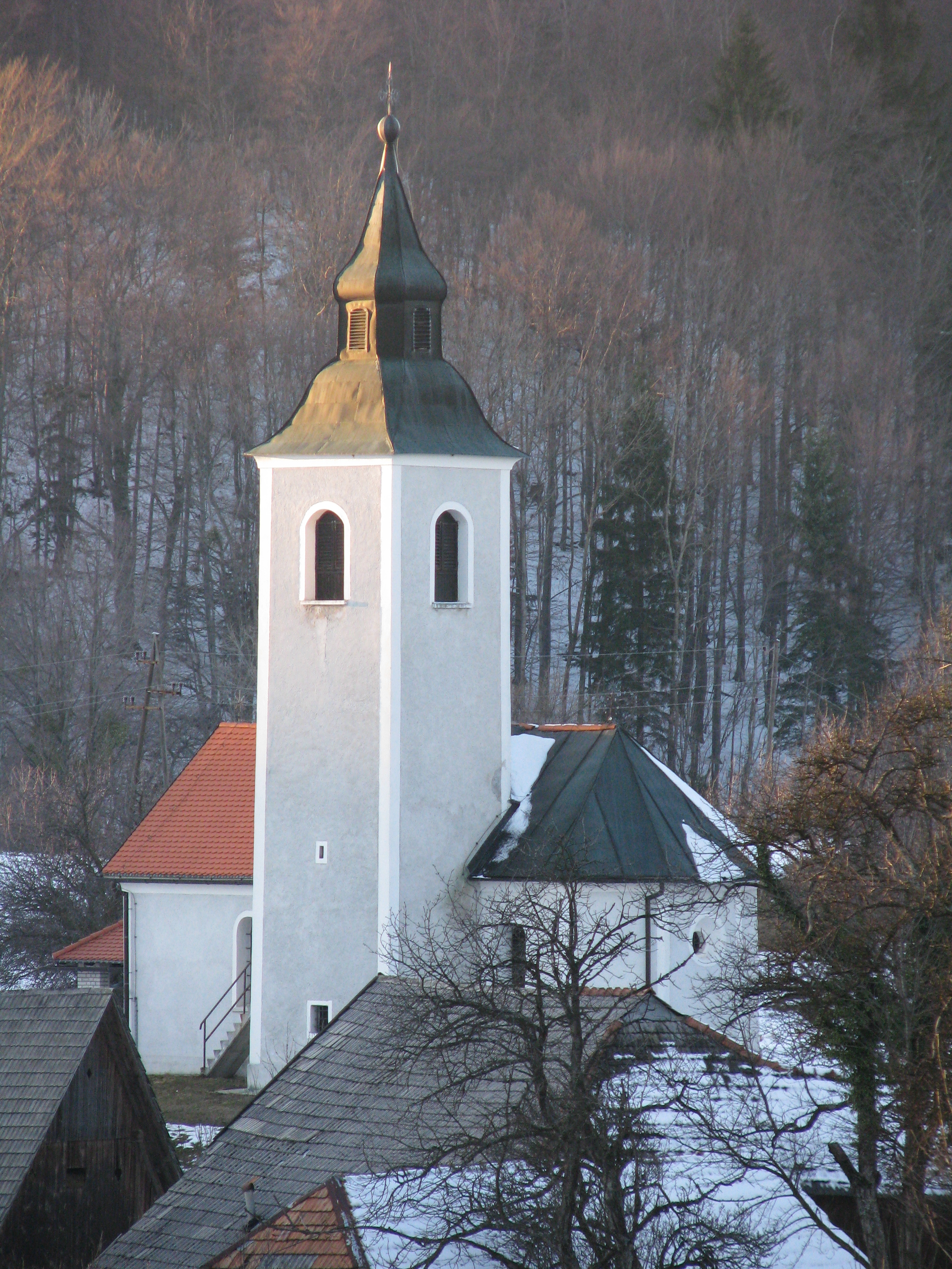 Holy Trinity church in Čimerno, Slovenia